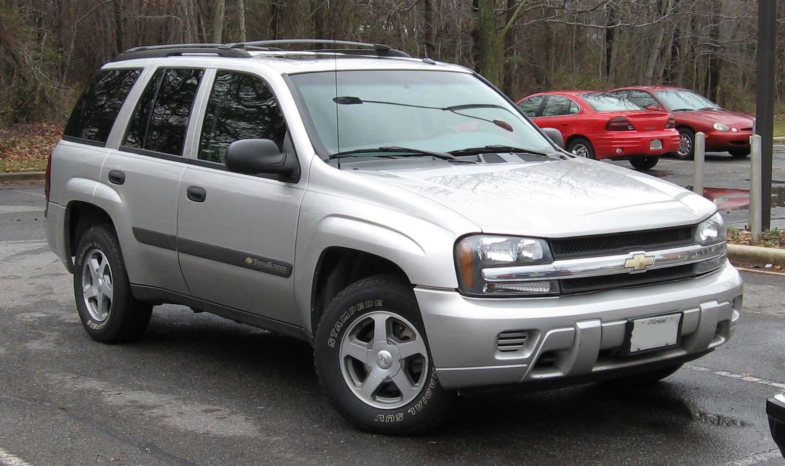 2002-2003 Chevrolet TrailBlazer photographed in USA.